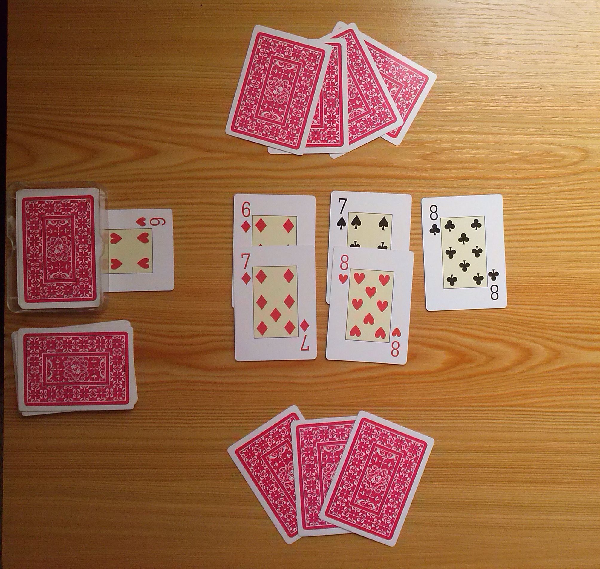 In the picture we see a two player game of Durak in process. The atacker provide a third card after two succeded defenses —one of them with the trump suit—. Now it is the turn of the defenser after a third card of the attacker. We can see too the deck where the cards are taken and the discarded one as well as the trump suit.